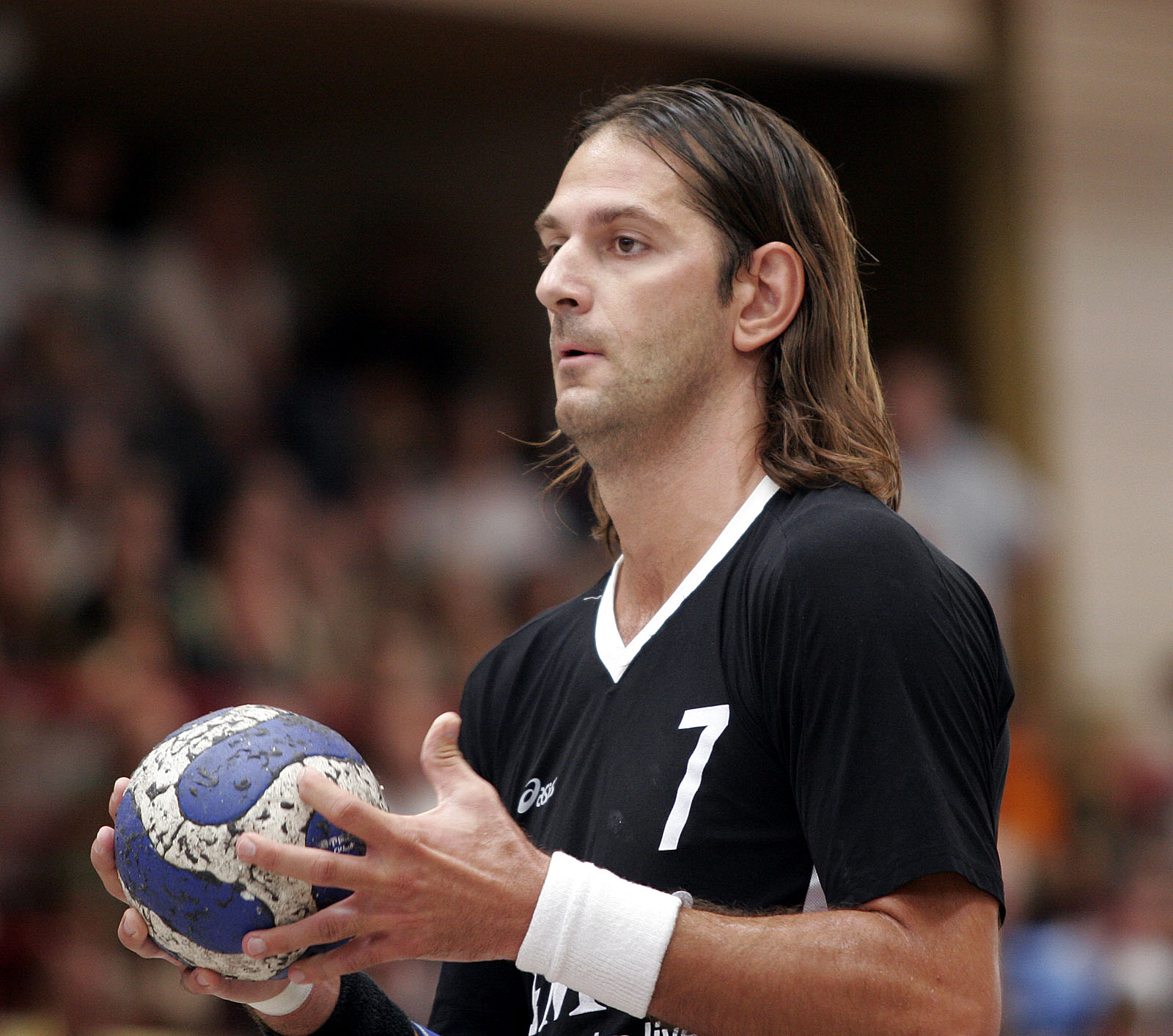 Mladen Bojinovic, Serbian handball player from Montpellier HB, during the Schlecker Cup 2007 in Ehingen (Germany)